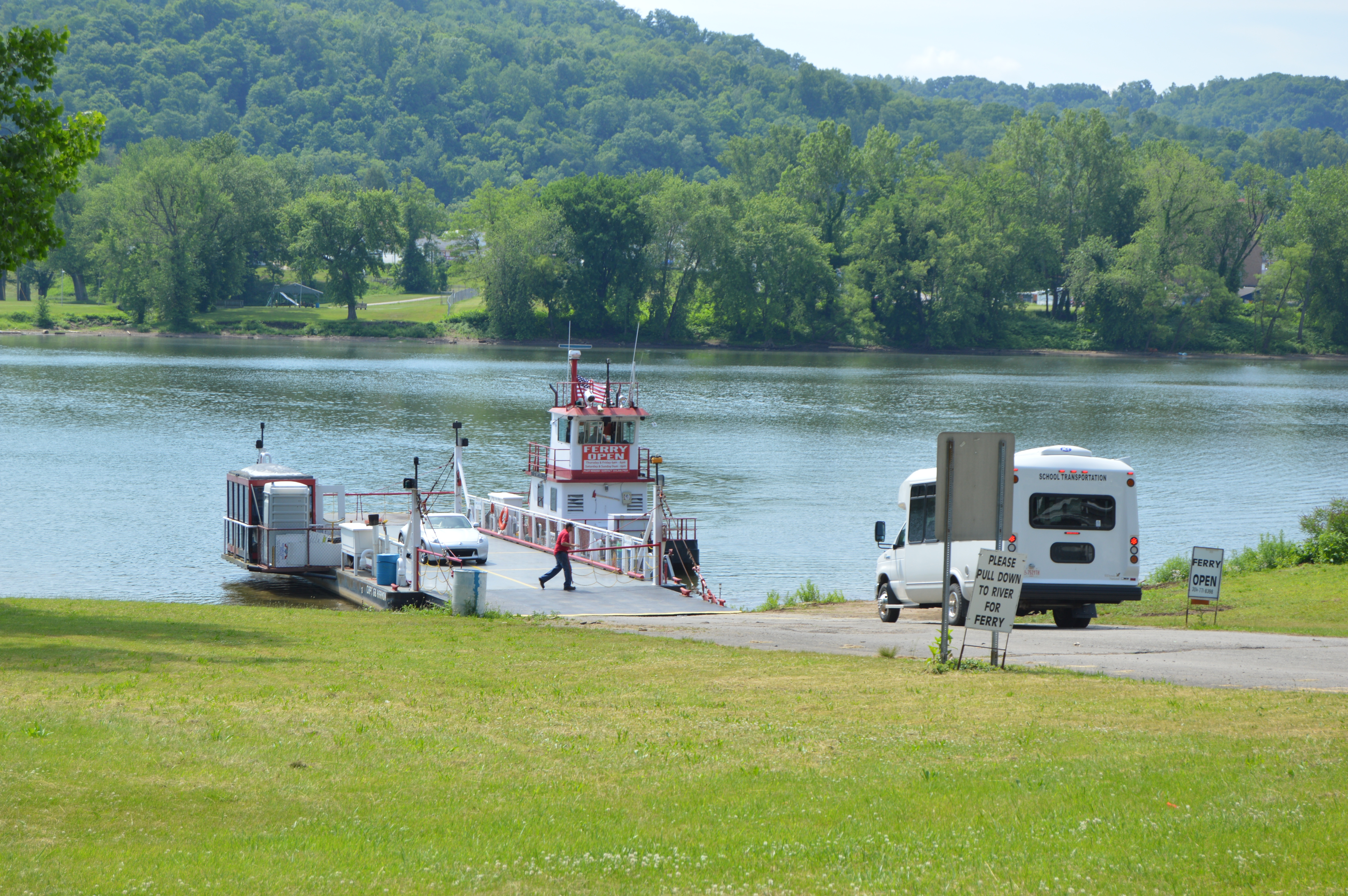 A vehicle prepares to board the Sistersville Ferry to cross from Fly, Ohio to Sistersville, West Virginia, United States. The Sistersville Ferry is one of four active Ohio River ferries; the others, located at Augusta, Anderson, and Cave-in-Rock, are all far downstream.